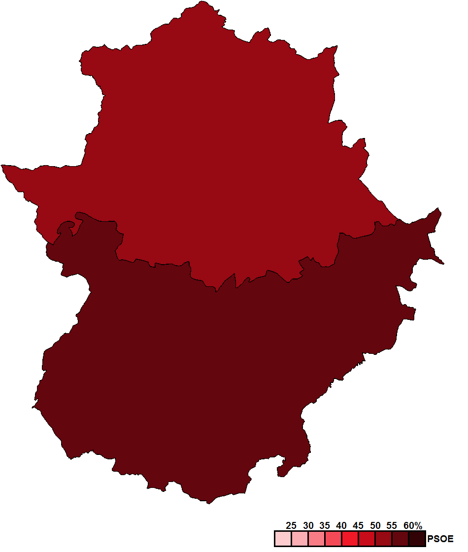 Provincial results for the 1991 Extremaduran regional election.